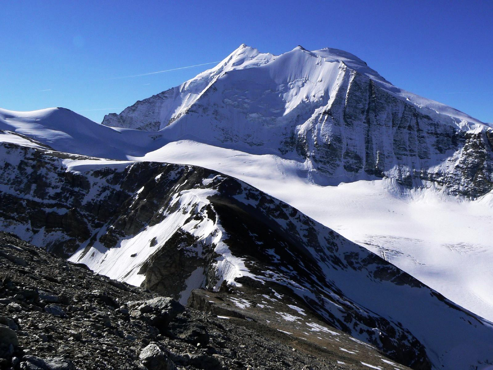 Weisshorn from Barrhorn, Valais Alps